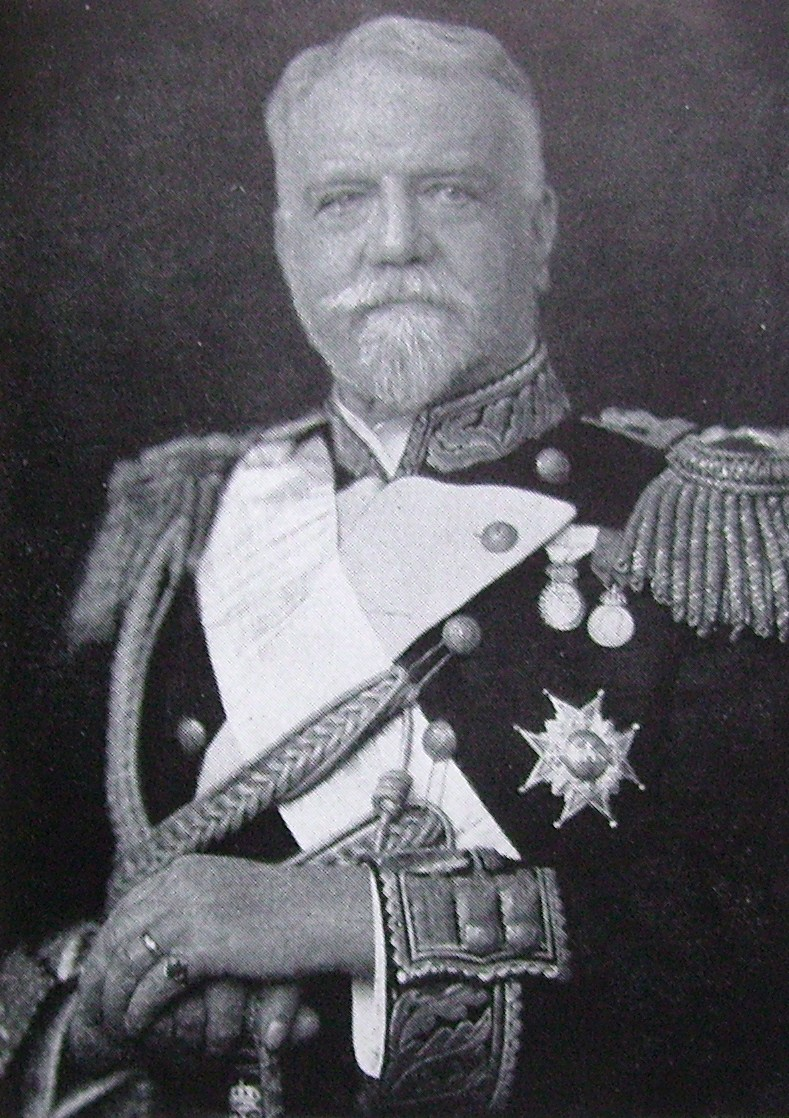 Picture of C.A. Ehrensvärd the elder, Swedish politician